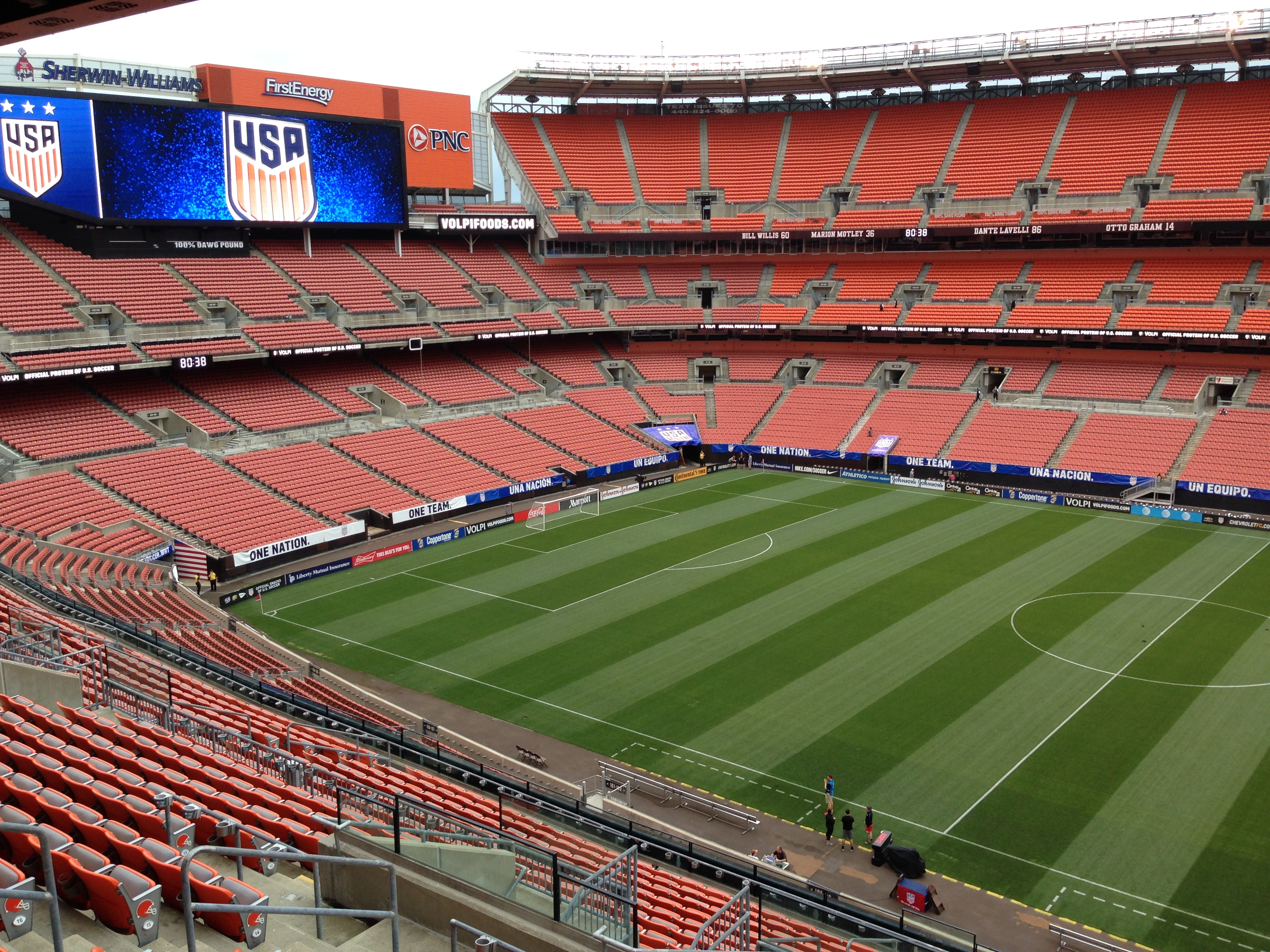 Western end zone of FirstEnergy Stadium in Cleveland set up for a women's soccer match between the United States and Japan.